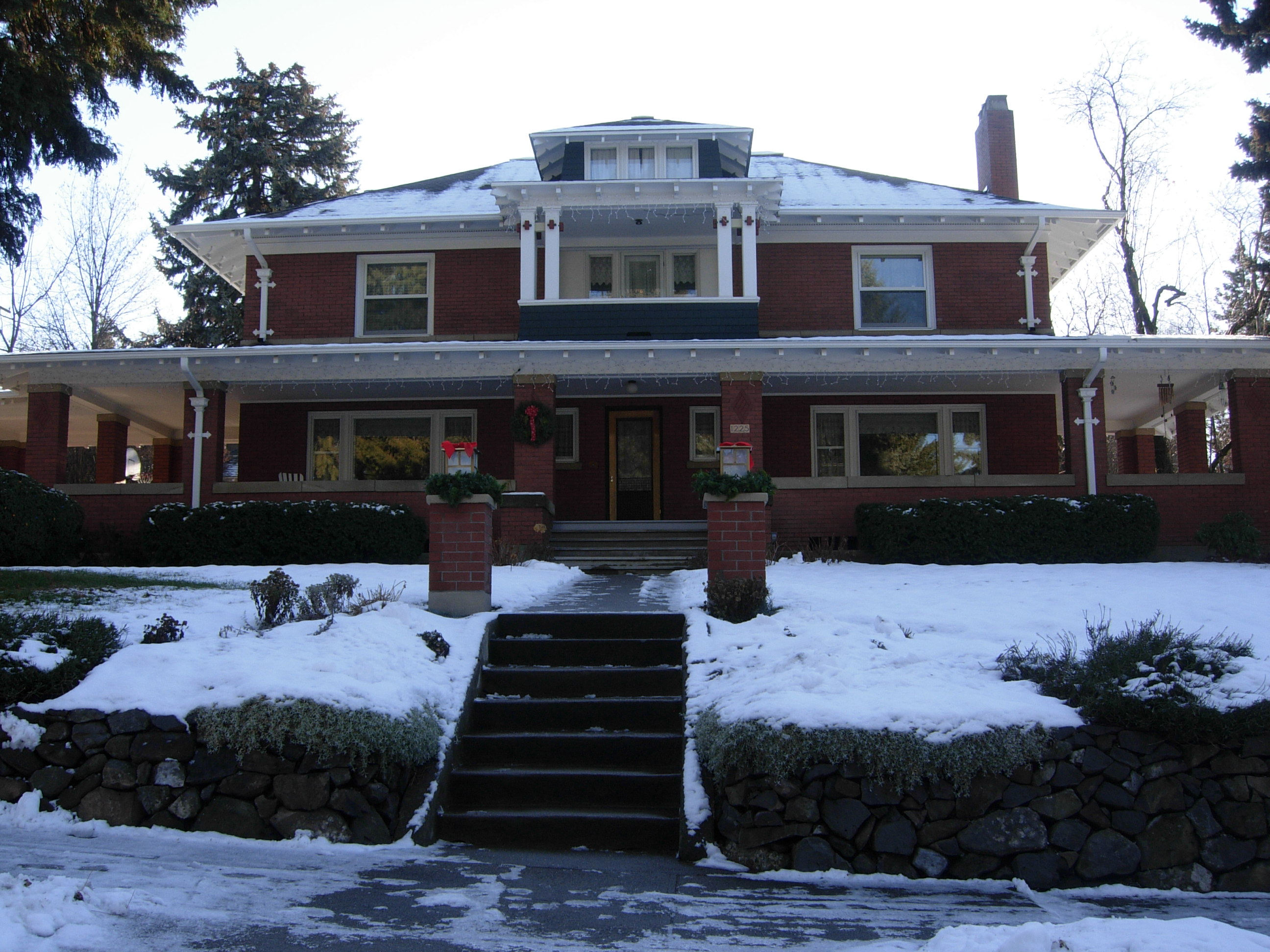 The James and Corinne Williams House in Spokane, Washington.